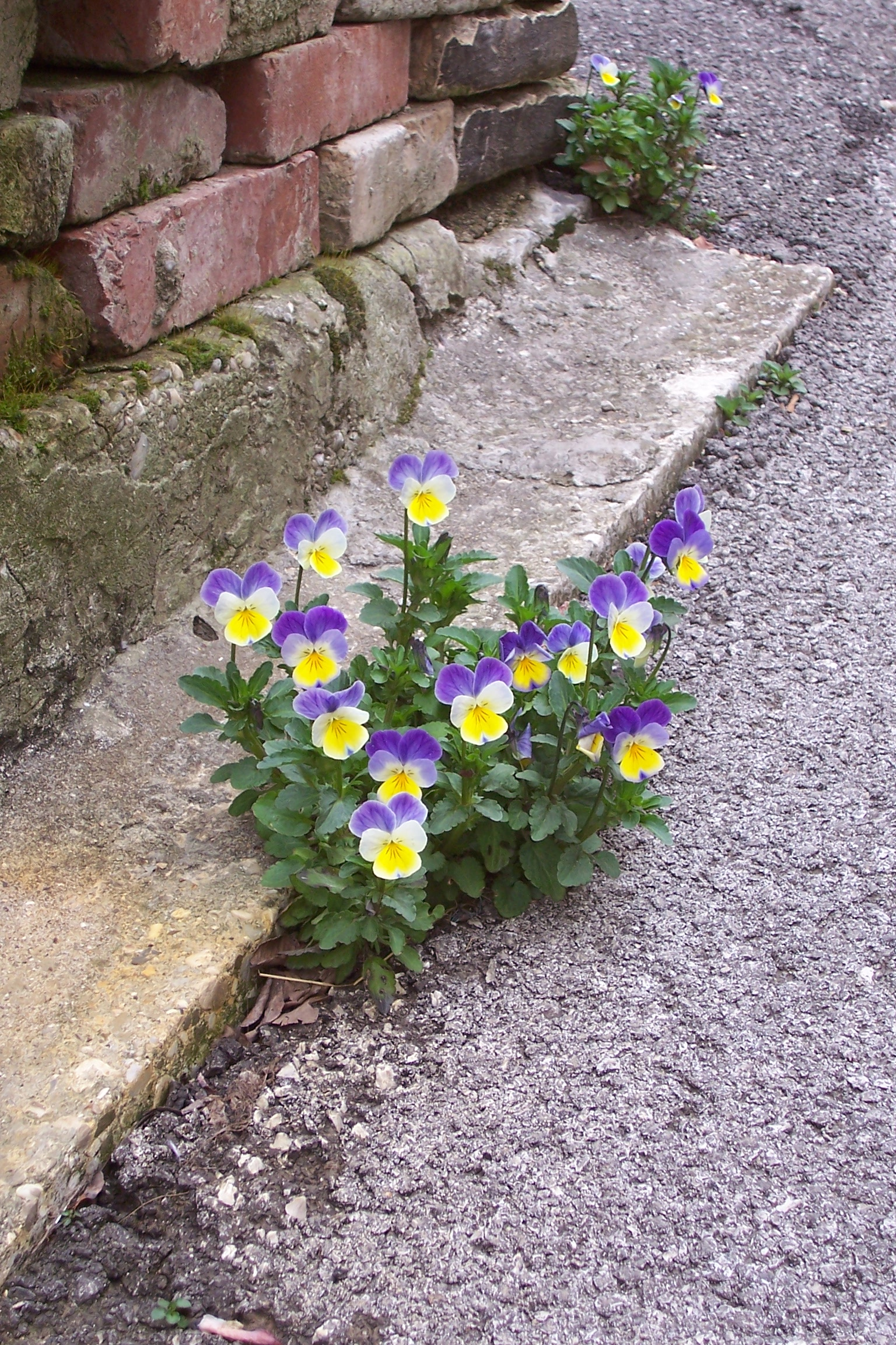 A very simple image of some pansies in a small crack between pavement and cement (Monfalcone (IT), spring 2006). Life will overcome some day, even if manship hurts it so much daily.